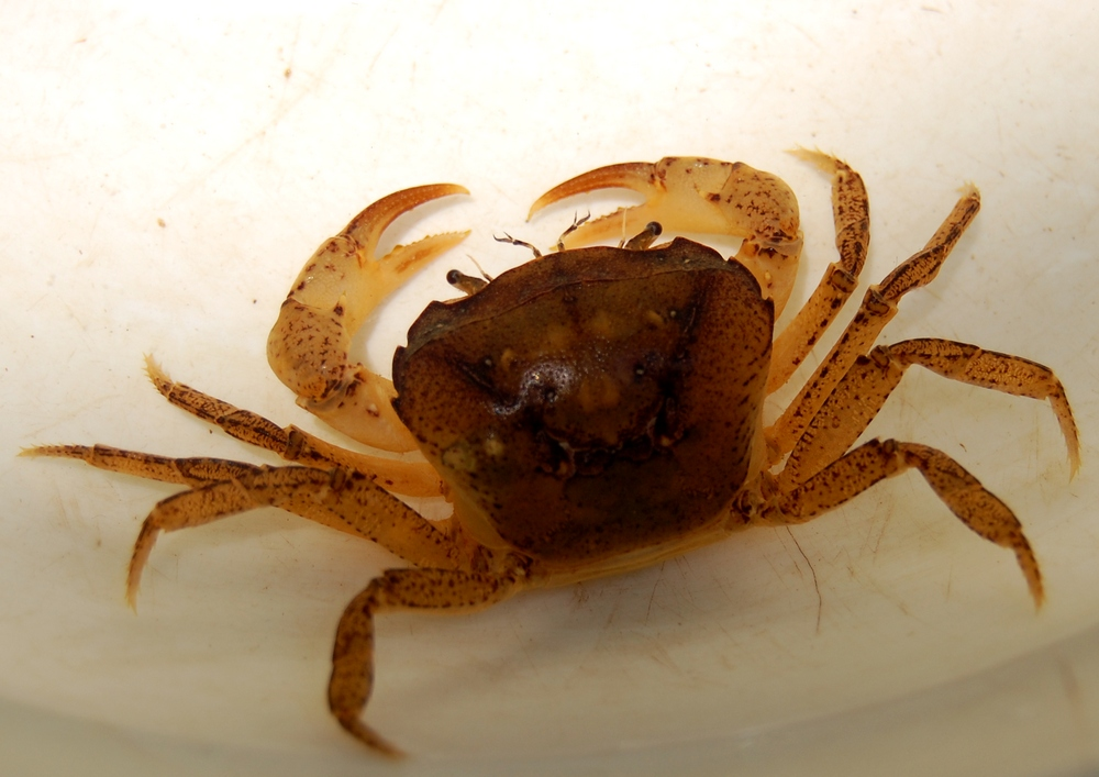 Paddyfield's crab, Parathelphusa convexa, dorsal close up. Bogor, West Java